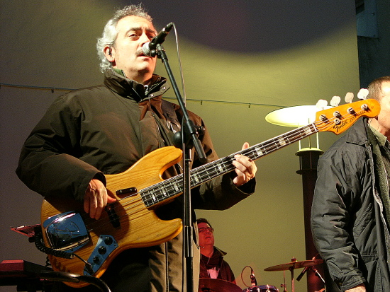 valencian musician Jordi Reig performing live with Al Tall in Benissa